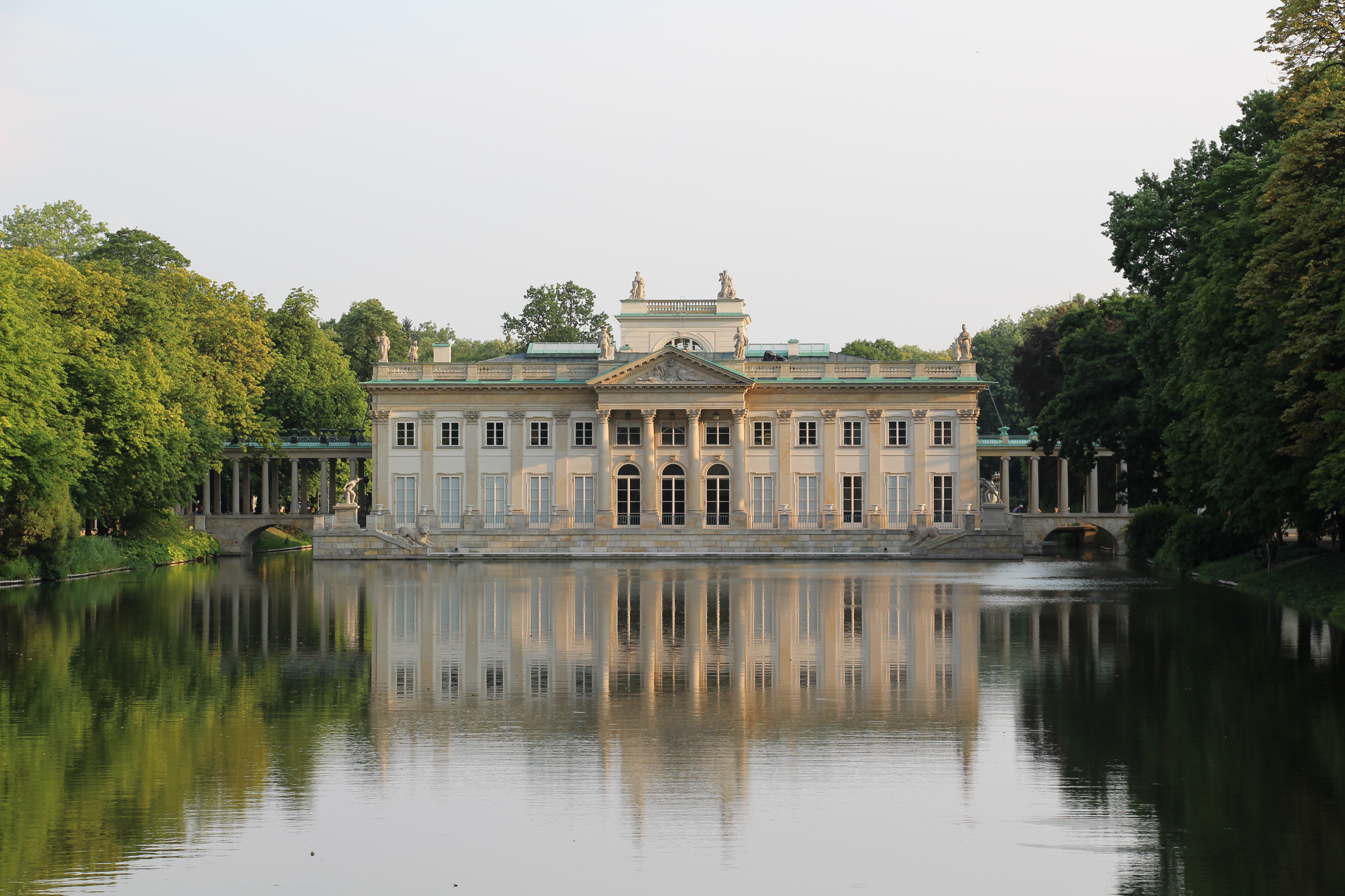 Agrykoli Marble bathhouse. Arch. Tylman Gamerski around 1683-89. Largely remodeled for Stanisław II Augustus. Arch. Domenico Merlini 1764-95